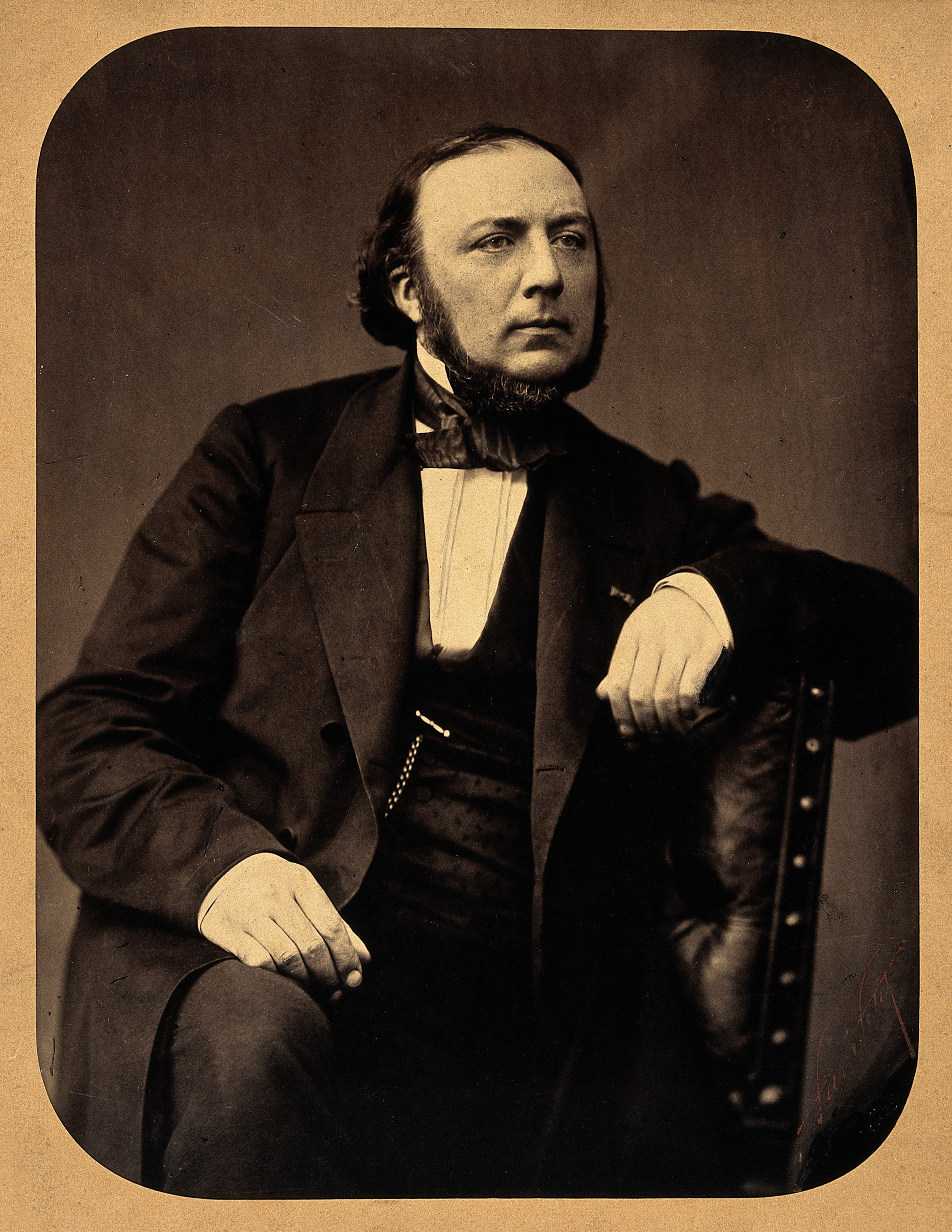 François Anthyme Eugène Follin. Photograph by Pierre Petit. Iconographic Collections Keywords: portrait photographs